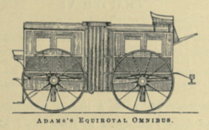 Adam's equirotal omnibus p. 61 of Omnibuses and Cabs